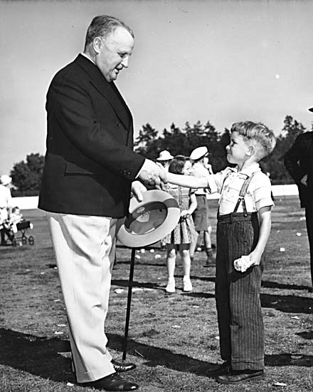 Thomas Dufferin Pattullo, premier of British Columbia